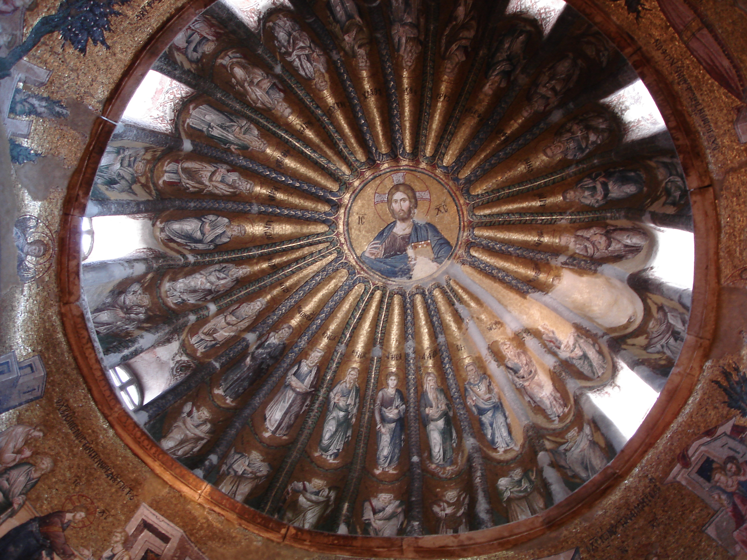 Chora church in Istanbul. South coupole of the esonarthex. Genealogy of Jesus Christ and the Christ Pantocrator. I feel that this picture is an inspiration to every one to see and hope for the Returm of Christ Jesus our Saviour